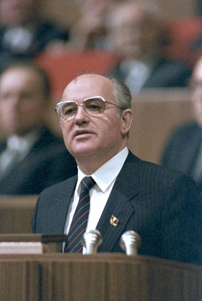 “The final speech of the General Secretary of the CPSU Central Committee M. Gorbachev”. The work of the XXVII Congress of the CPSU was completed on 6 March 1986. The final speech was made by the General Secretary of the CPSU Central Committee M. Gorbachev. The Kremlin Palace of Congresses.